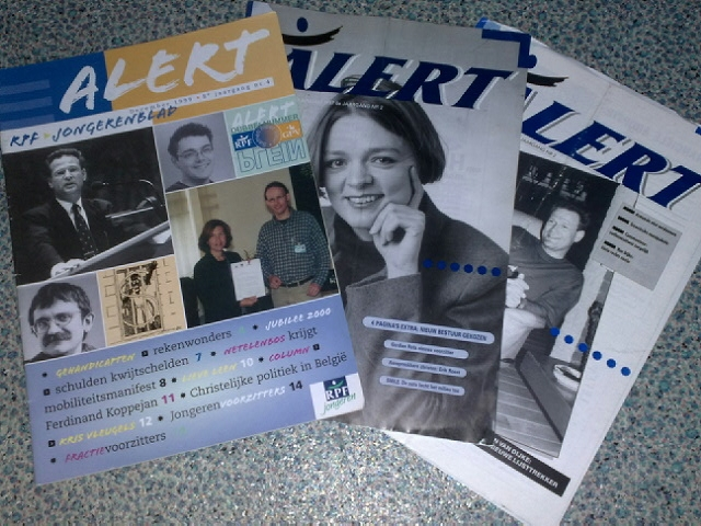 Picture of covers of Alert, magazine of RPF-jongeren